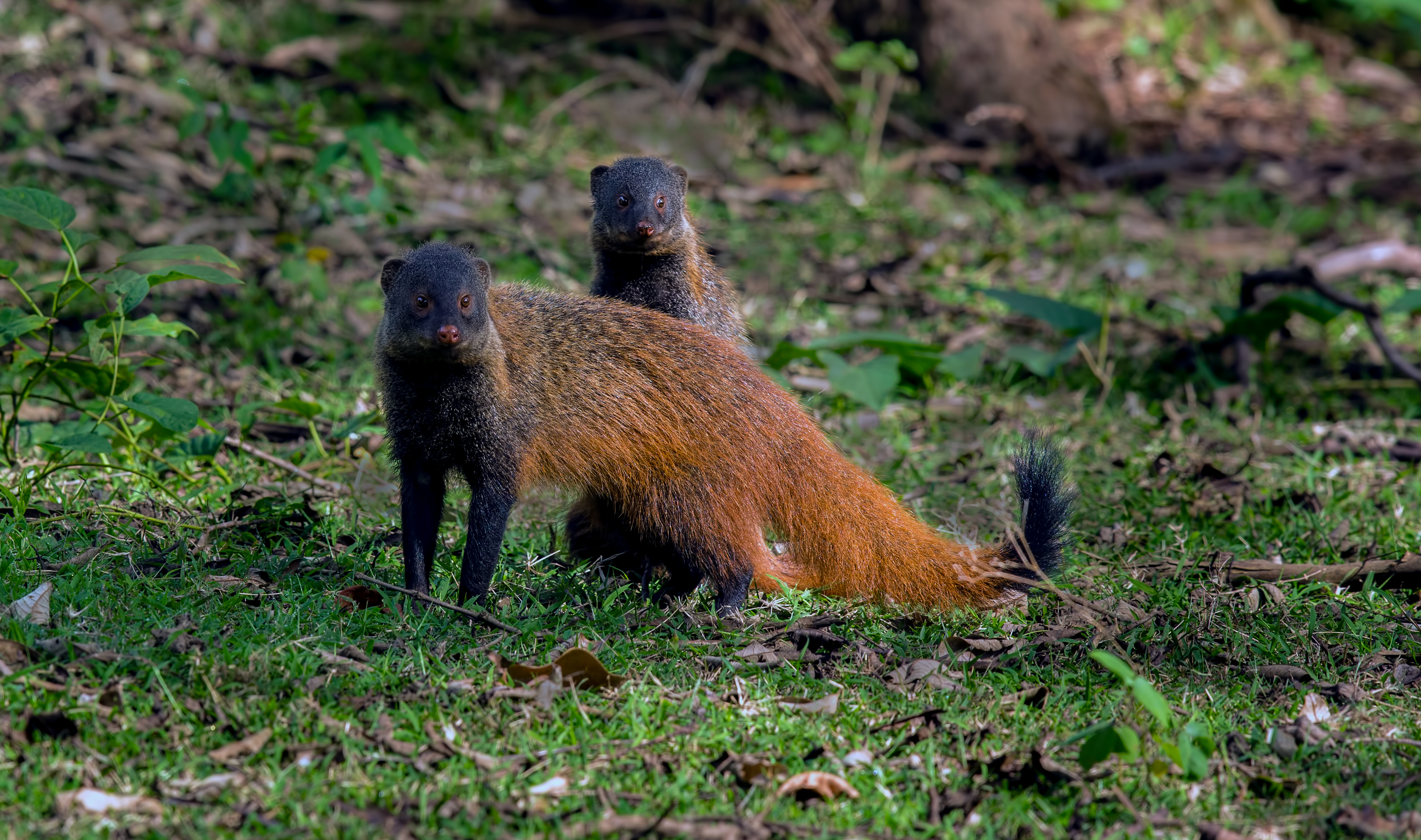 A pair of Stripe-necked mongoose (Herpestes vitticollis) taken at Nagarahole Tiger reserve, Karnataka India.